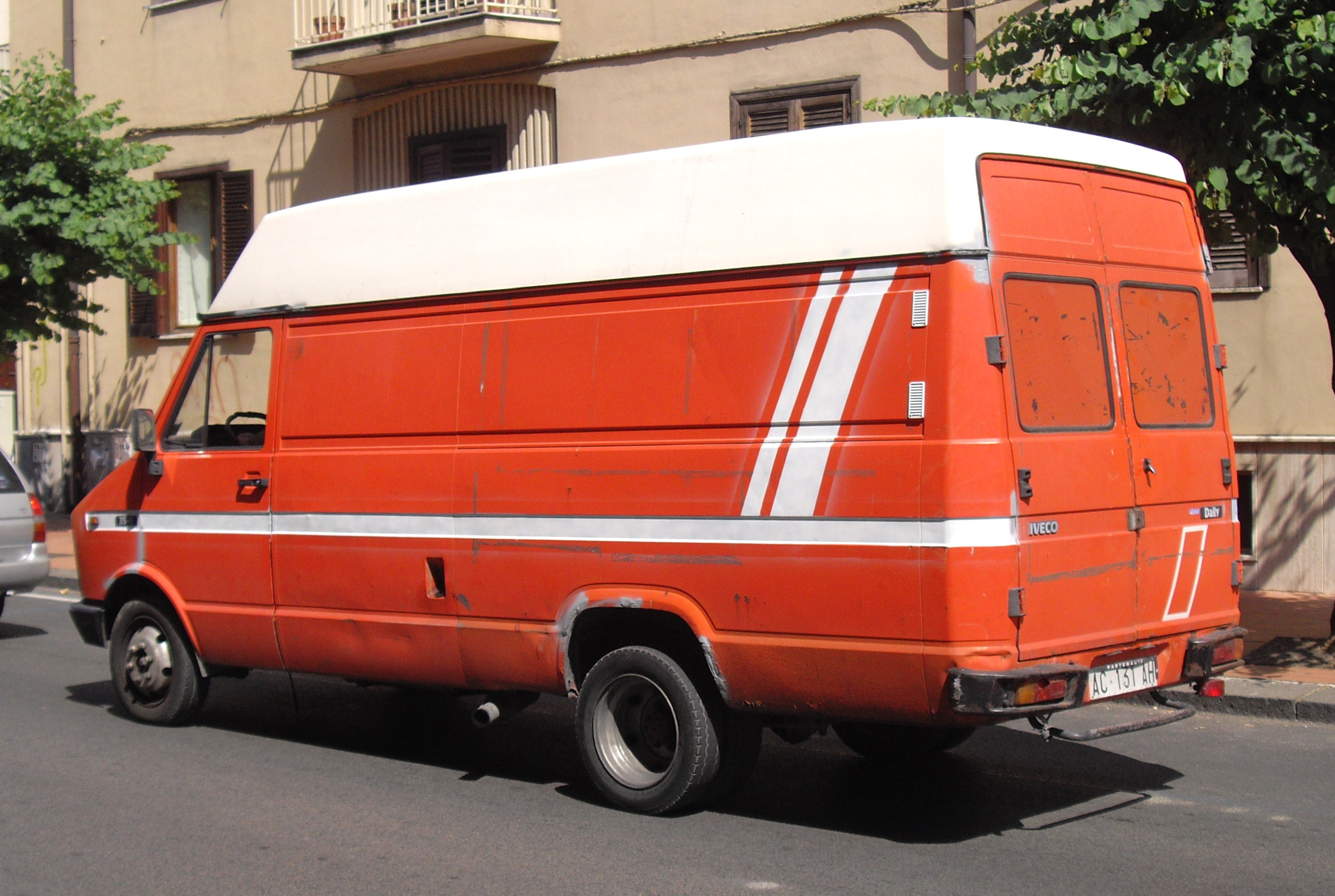 Iveco Daily